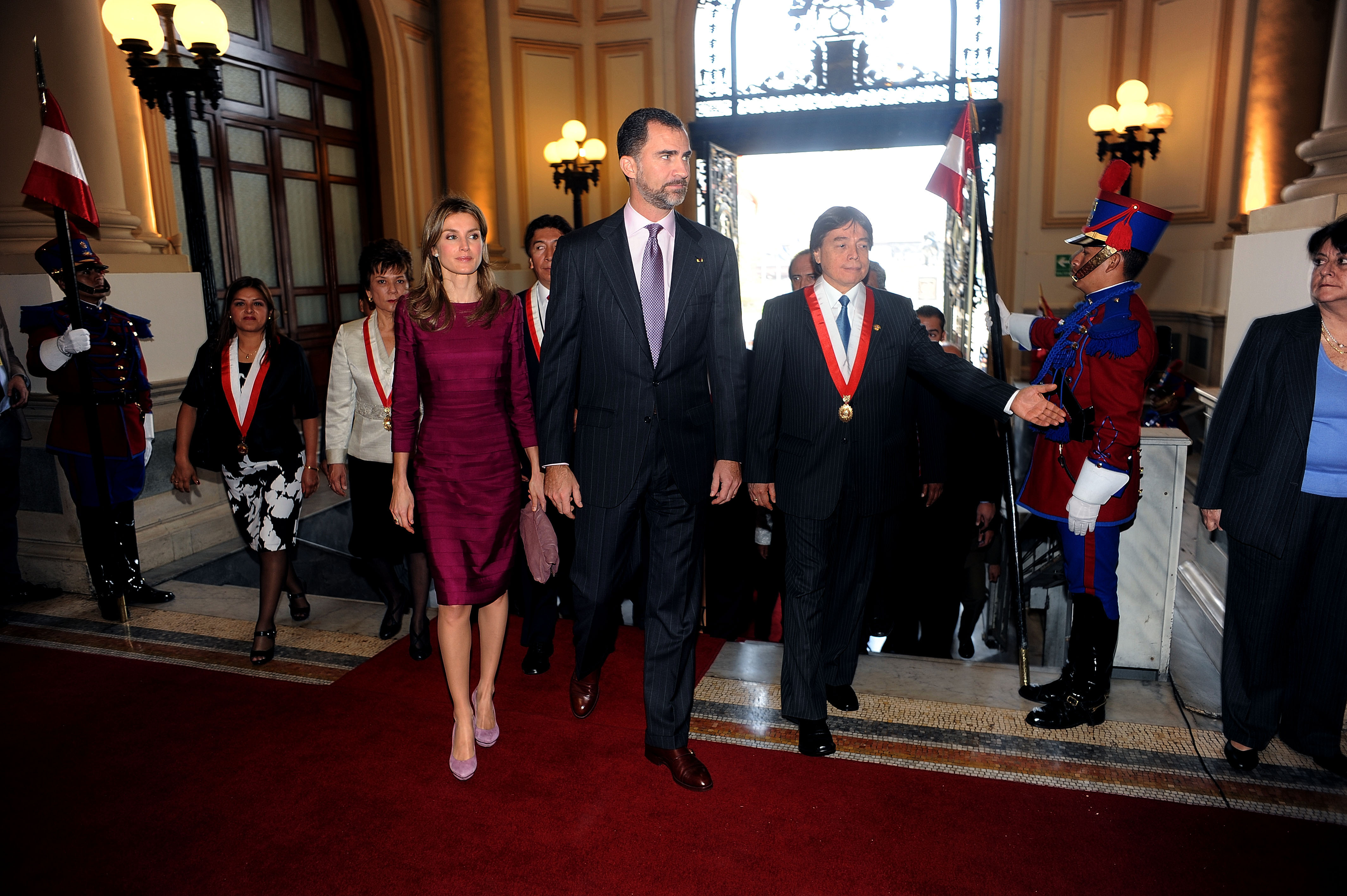 The Princes of Asturias, Felipe de Borbon and Letizia Ortiz, arrive at the Congress of the Republic of Peru. They are accompanied by Caesar Zumaeta Flores and members of the Board, and lawmakers from different political groups.